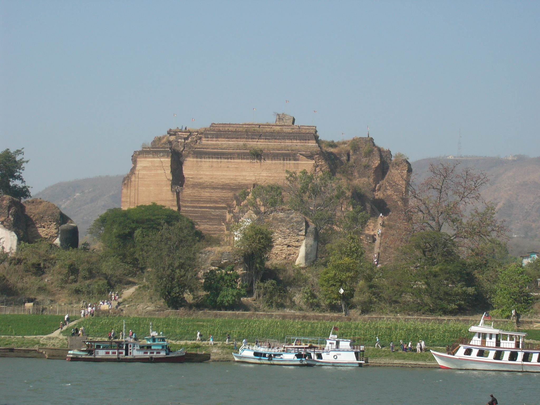 The Unfinished Stupa at Mingun, Myanmar. It was supposed to be the biggest stupa in the world. King Bodawpaya started to build it at the end of the 18th century but it cracked during constuction. This was taken as bad omen so it was left unfinished. Picture taken in February, 2005.